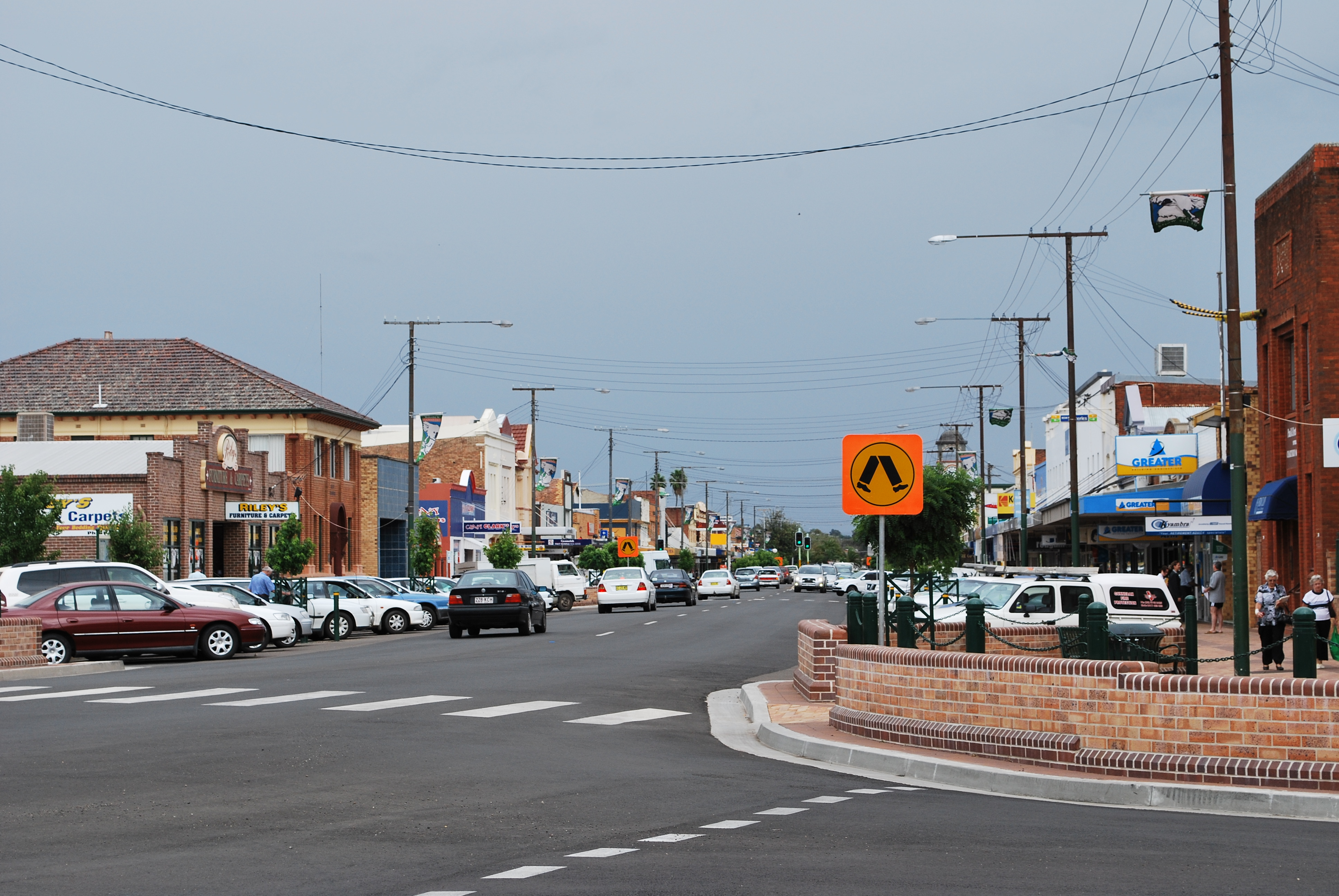 Main street of Gunnedah, New South Wales